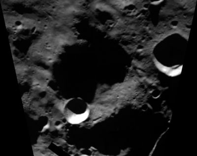 Clementine image